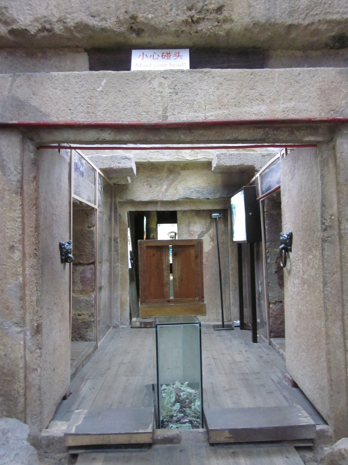 Museum of the Tomb of the King of Southern Yue in Western Han Dynasty